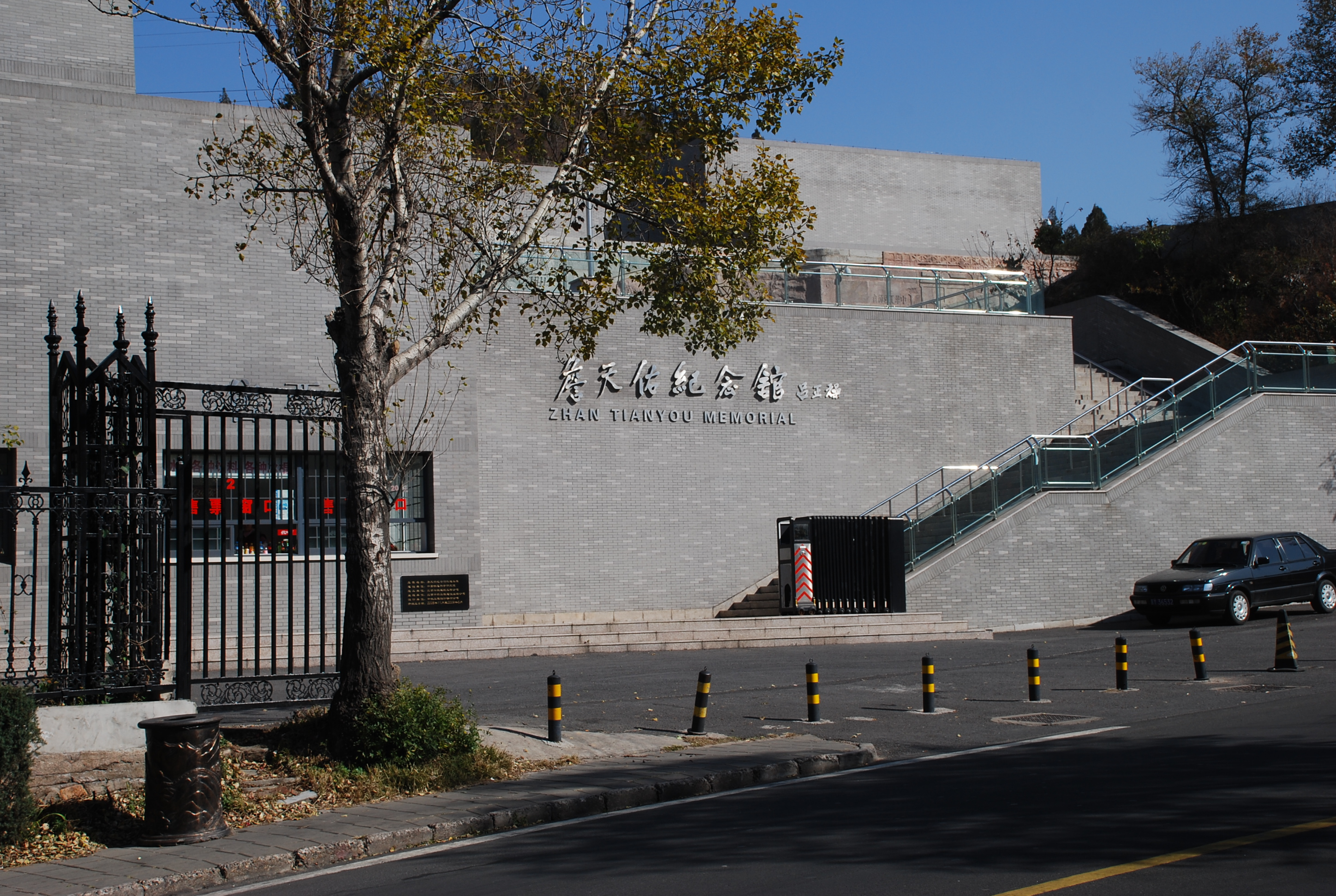 Zhan Tianyou Memorial